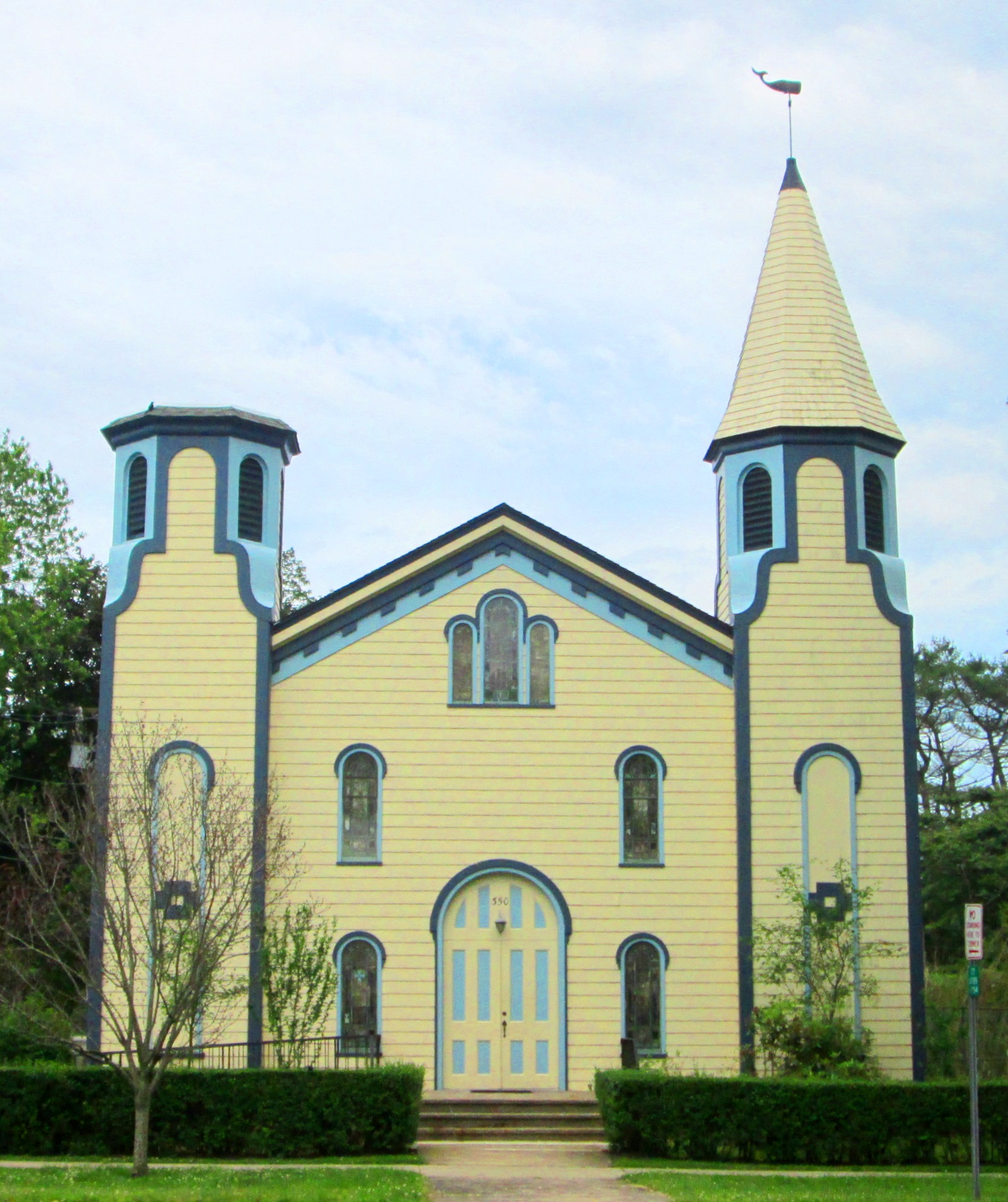 The First Presbyterian Church of Amagansett on Main Street in Amagansett, East Hampton, Suffolk County, New York was founded in 1860 as an amicable split from the Presbyterian Church of East Hampton.